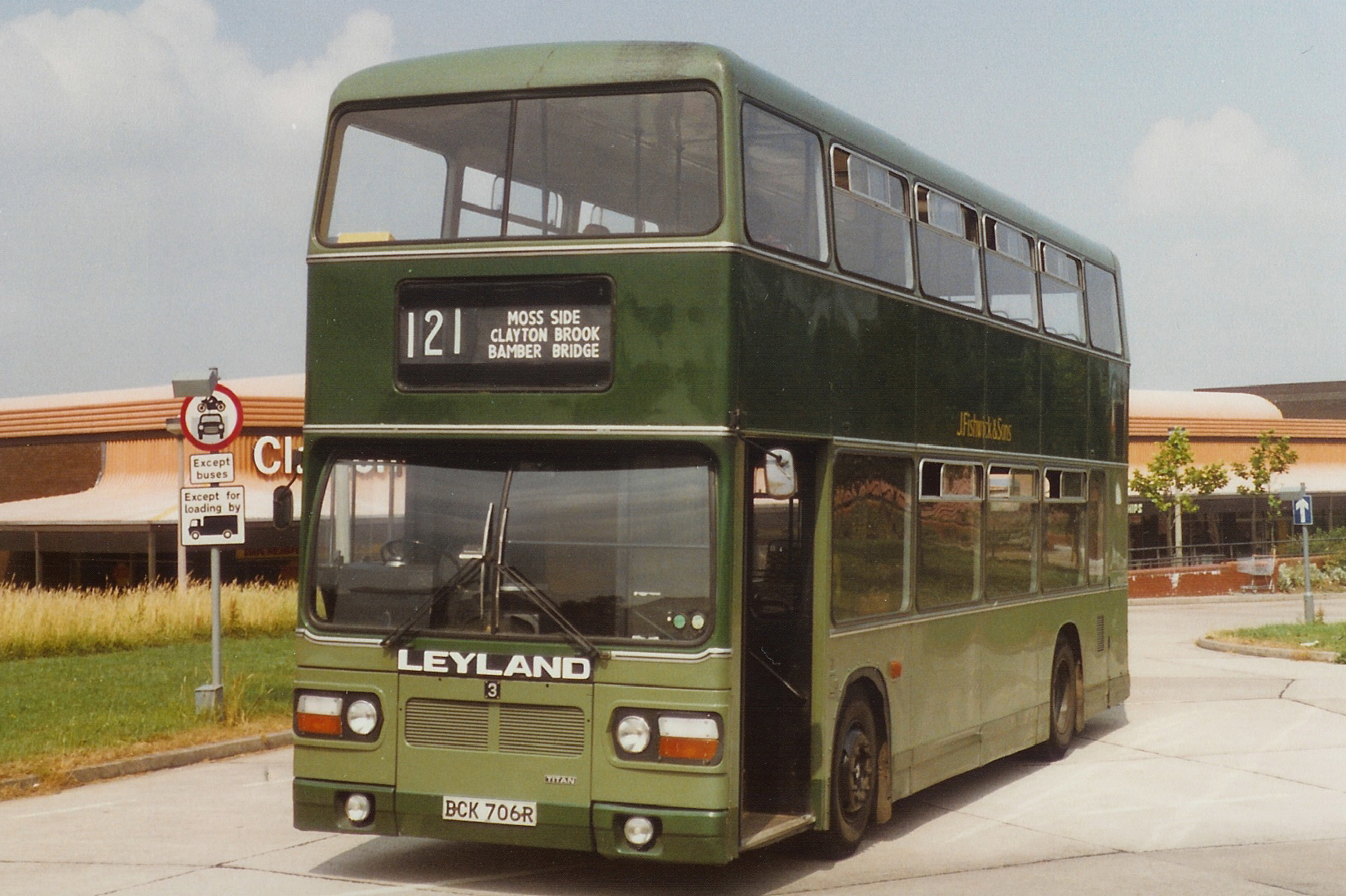 John Fishwick and Sons bus 3 (reg. BCK 706R), pictured operating the Lancashire based operator's route 121. The exact location is Grid Ref SD577235 - the old turning circle at Clayton Green village centre prior to its demolition. The grey building in the background to the right is Clayton Green sports centre. The date is also unknown, but the bus was operated by Fishwicks during the 1980s (until late 1987). This bus was the 5th of the five pre-production Titans. For a full history of the vehicle, see the extracted image.